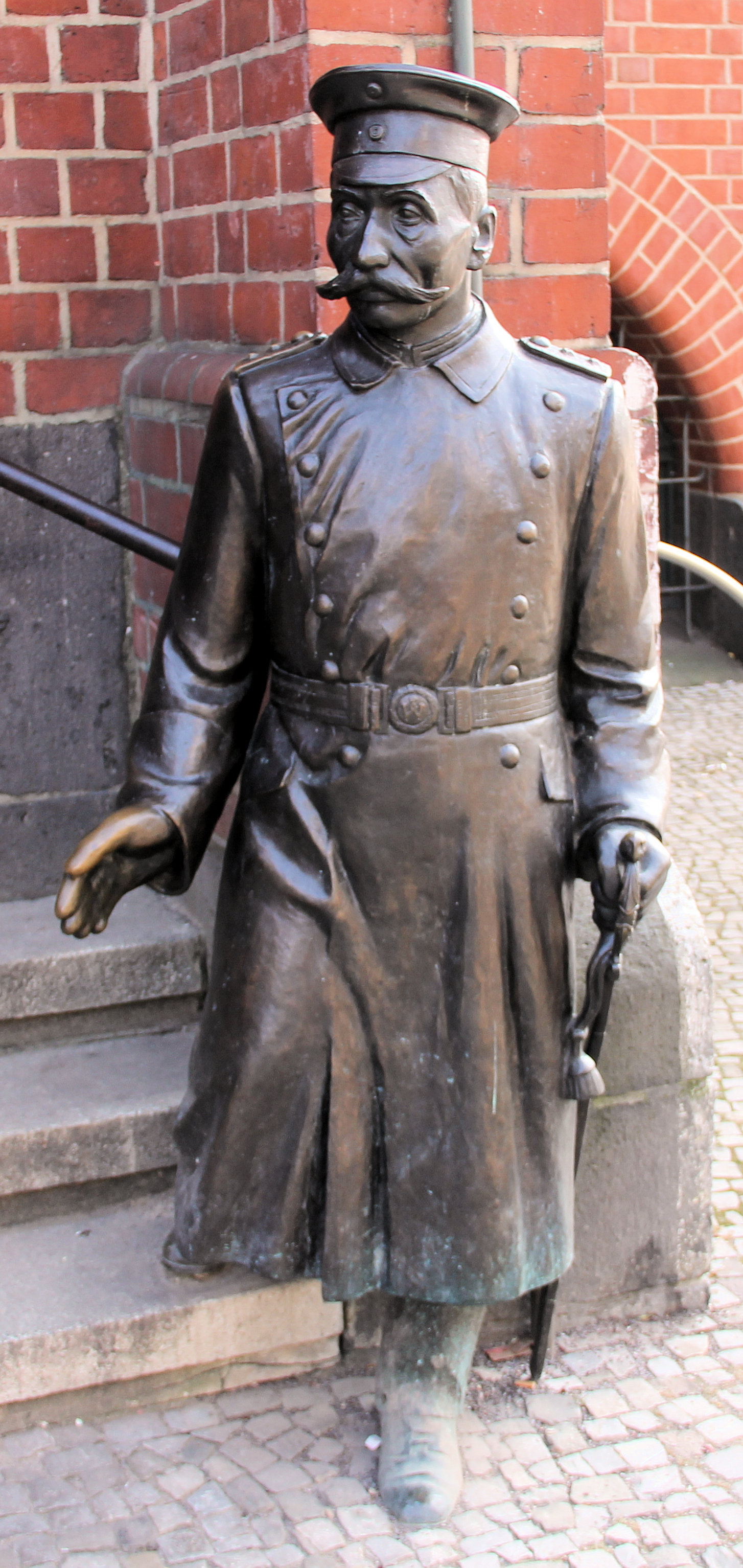 Memorial statue, "Wilhelm Voigt" by Spartak Babajan, 1996, Alt-Köpenick 21, Berlin-Köpenick, Germany Koordinate:52°26′45″N 13°34′29″E / 52.44583°N 13.57472°E